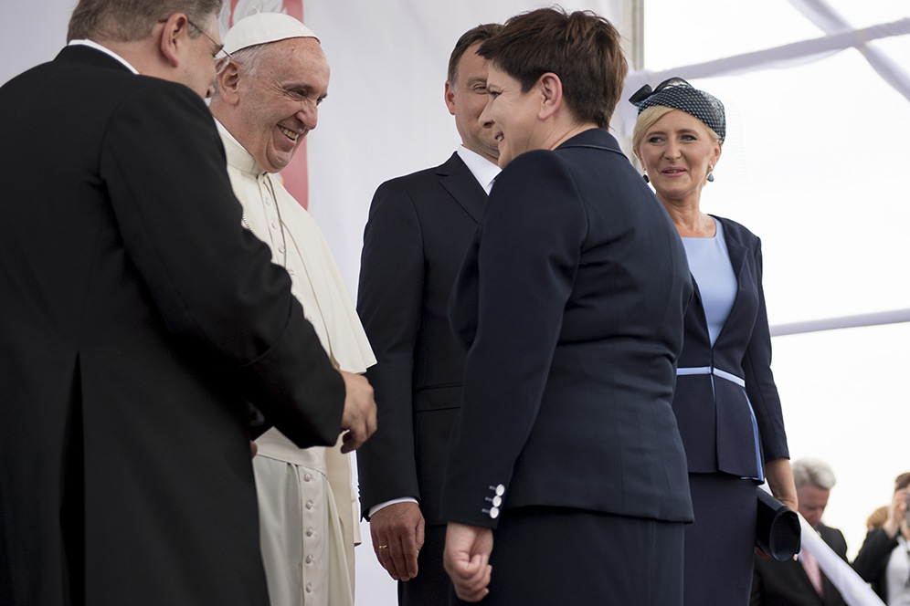 27.07.2016, Kraków | Premier Beata Szydło wraz z polskim władzami przywitała Ojca Świętego w Krakowie. fot. P. Tracz/KPRM